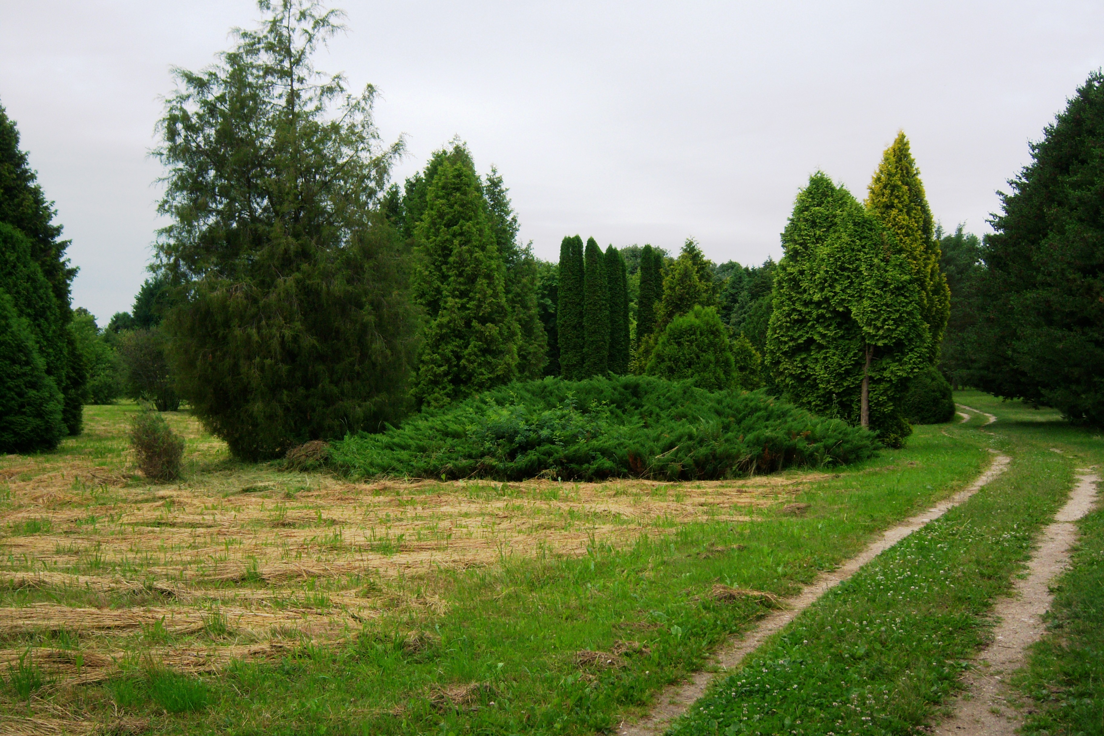 Dubravos arboretum, collection of trees, Kaunas district, Lithuania